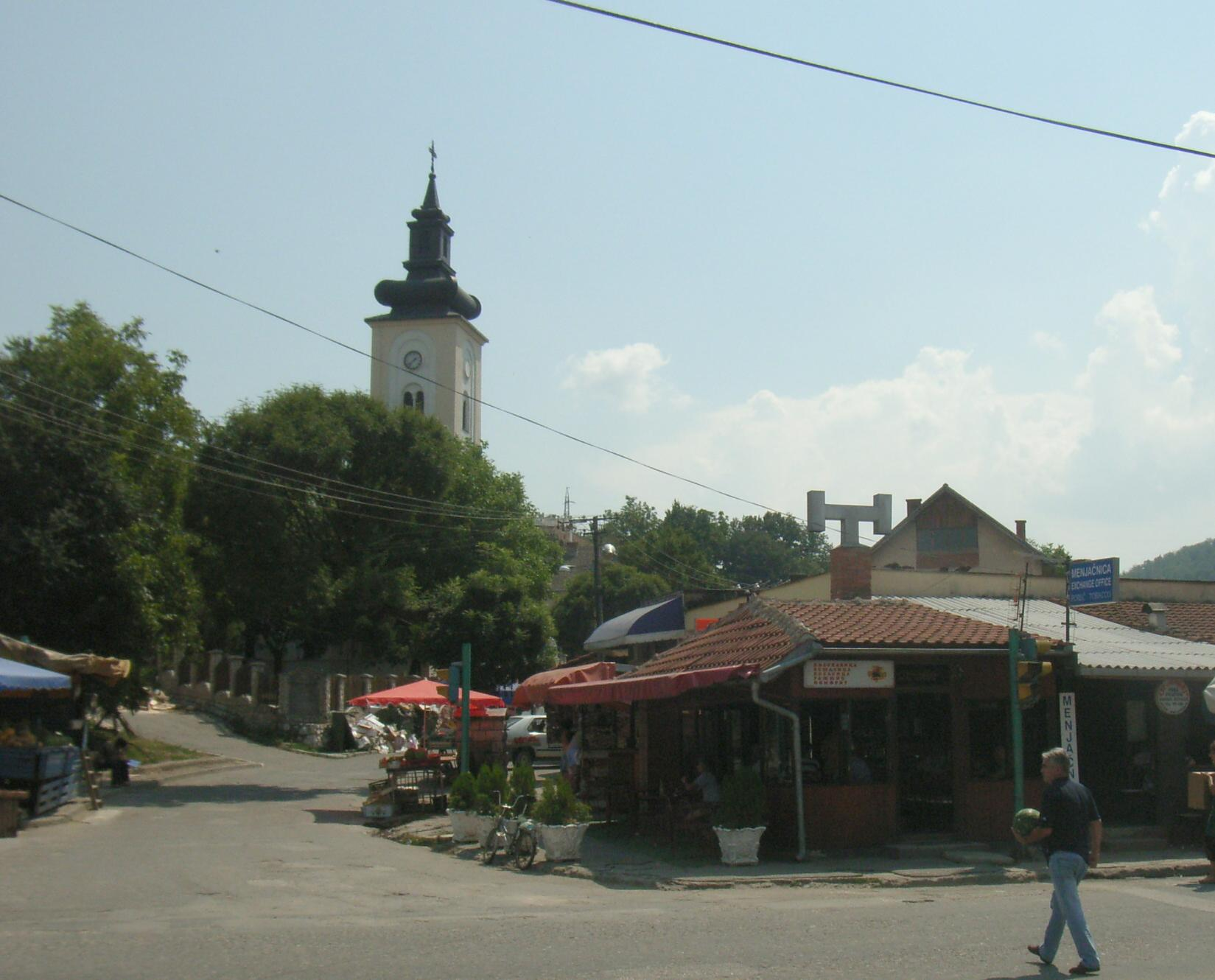 Center of Donji Milanovac in Serbia.